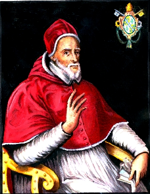 Pope Gregory XIV